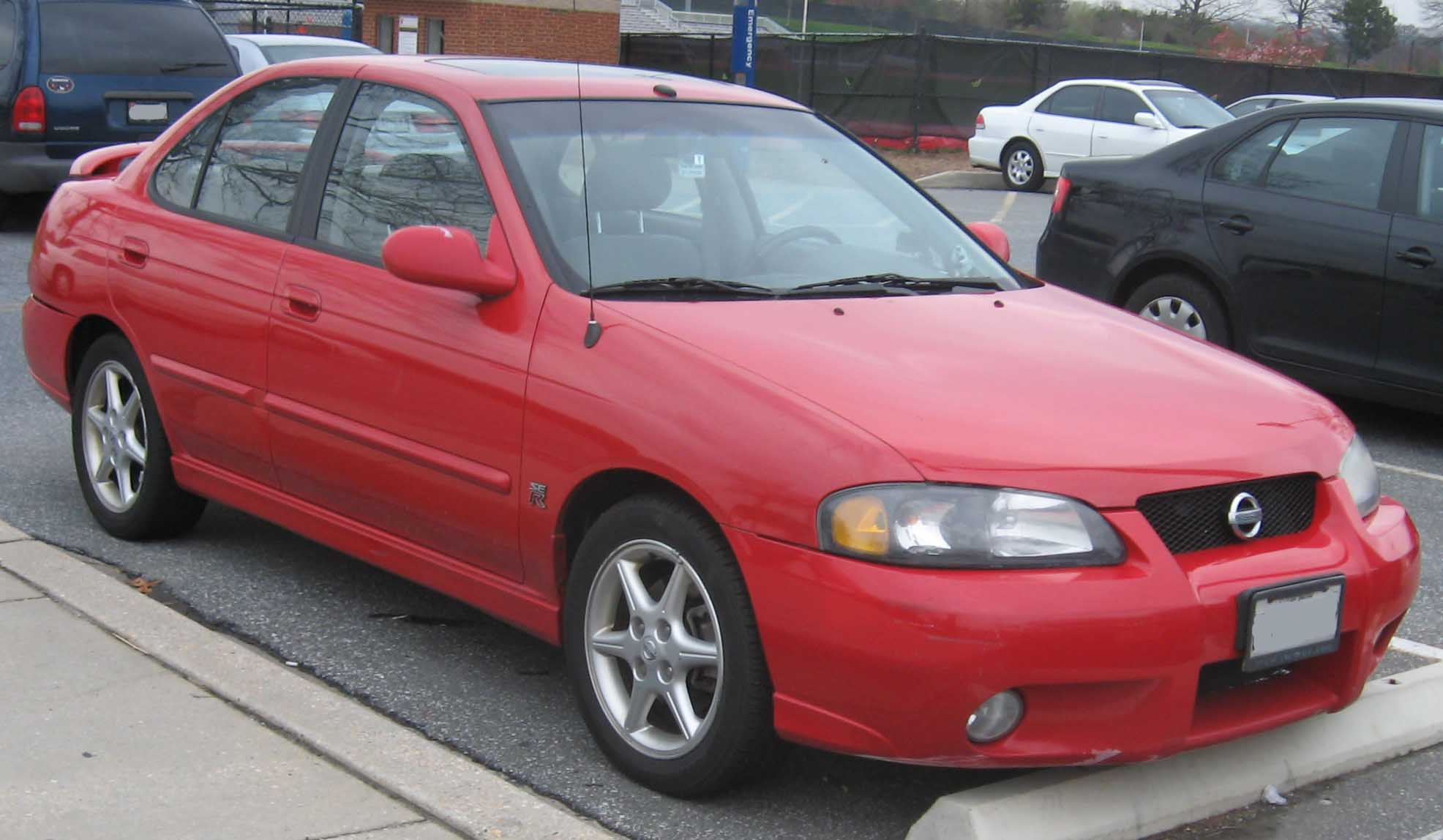 2002-2003 Nissan Sentra photographed in College Park, Maryland, USA.